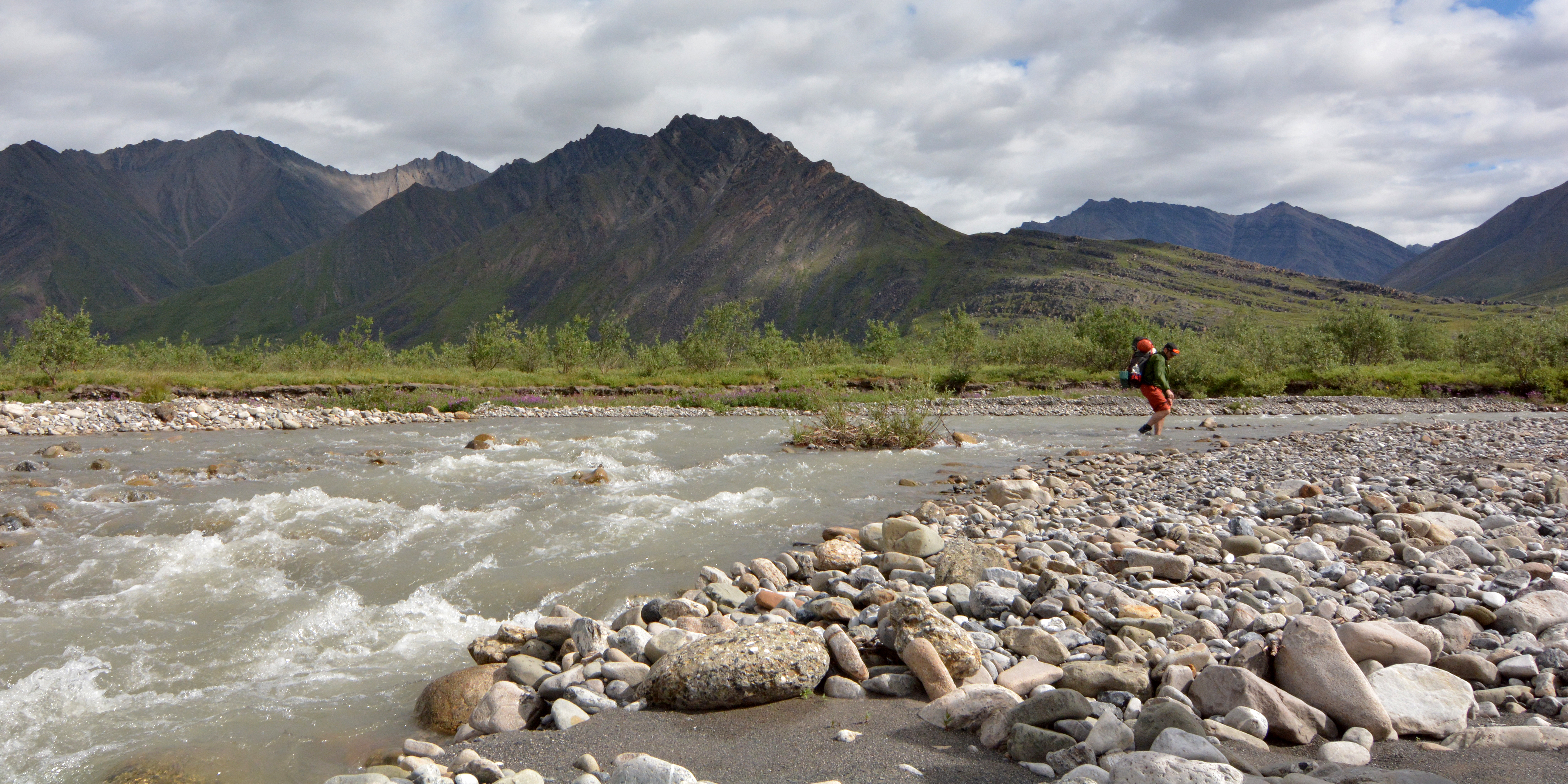 Entering Oolah Valley. Gates of the Arctic National Park, Brooks Range mountains, Alaska